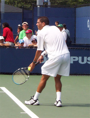 Self Made Photo Of Harel Levy